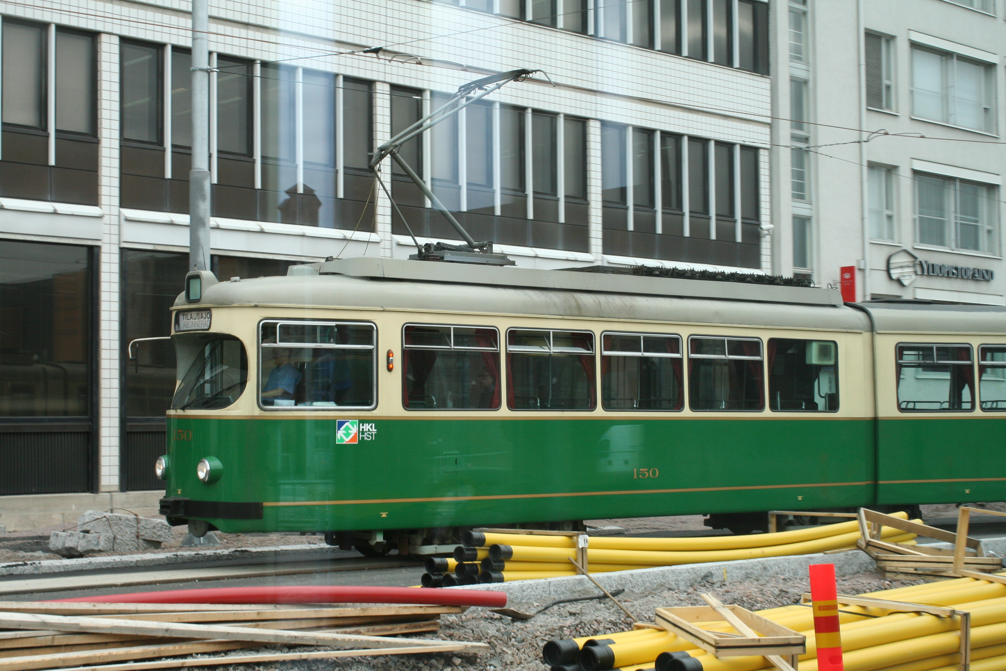 Helsinki City Transport tram number 150, a Düwag GT8, on a charter drive on the new tracks on Teollisuuskatu. This tram particular tram was built in 1967 by Düwag as a GT6 type tram for Verkehrsbetriebe Ludwigshafen am Rhein GmbH as number 150. In 1970 the tram was lengthened by the addition of a new mid-section, making it a GT8 type tram. It was withdrawn from service in Ludwigshafen in 2003 and sold to Helsinki in 2004, retaining it's original number. Number 150 is the only GT8 type tram in Helsinki without a low-floor middle section.